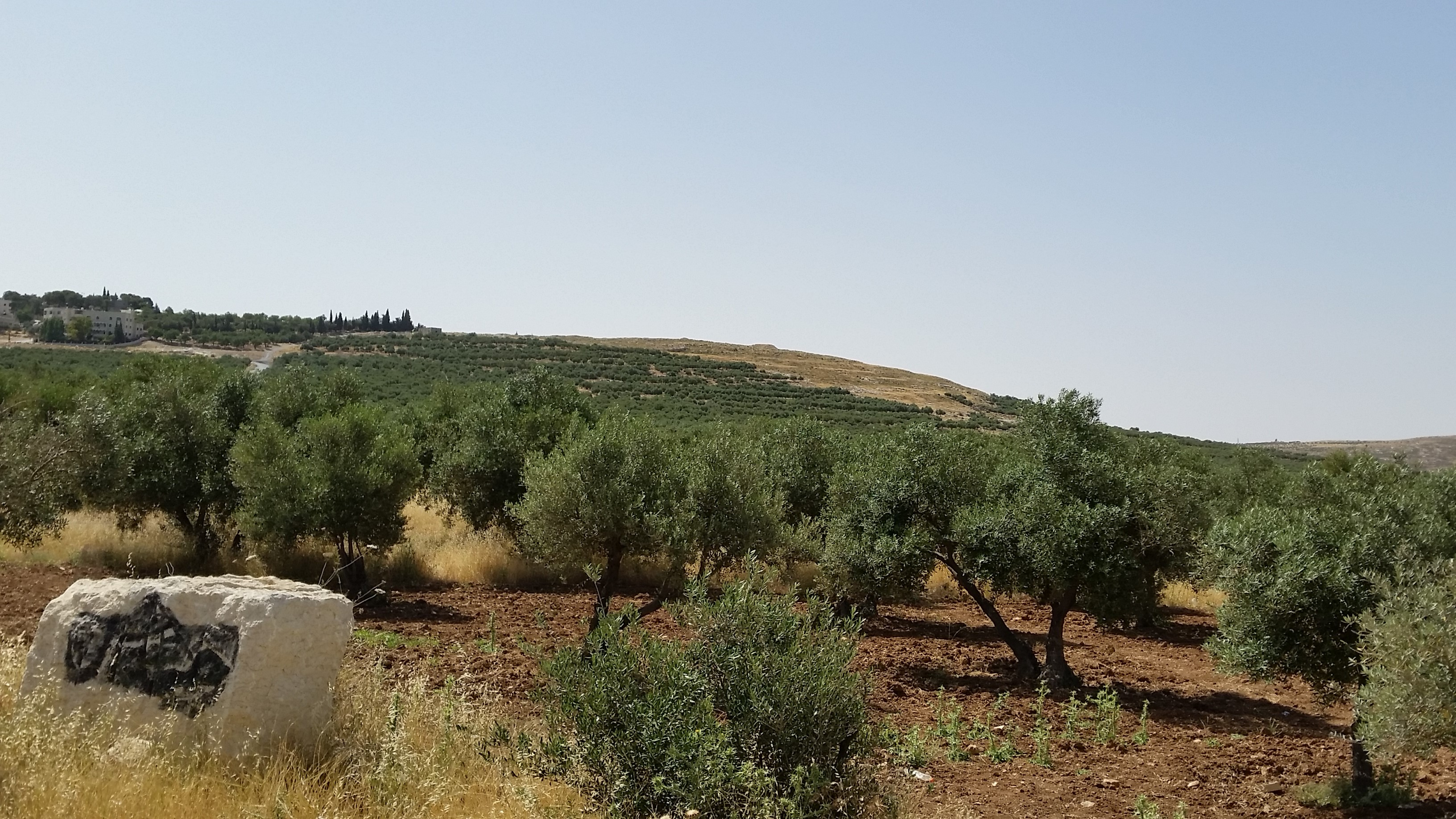 Tell Tekoa